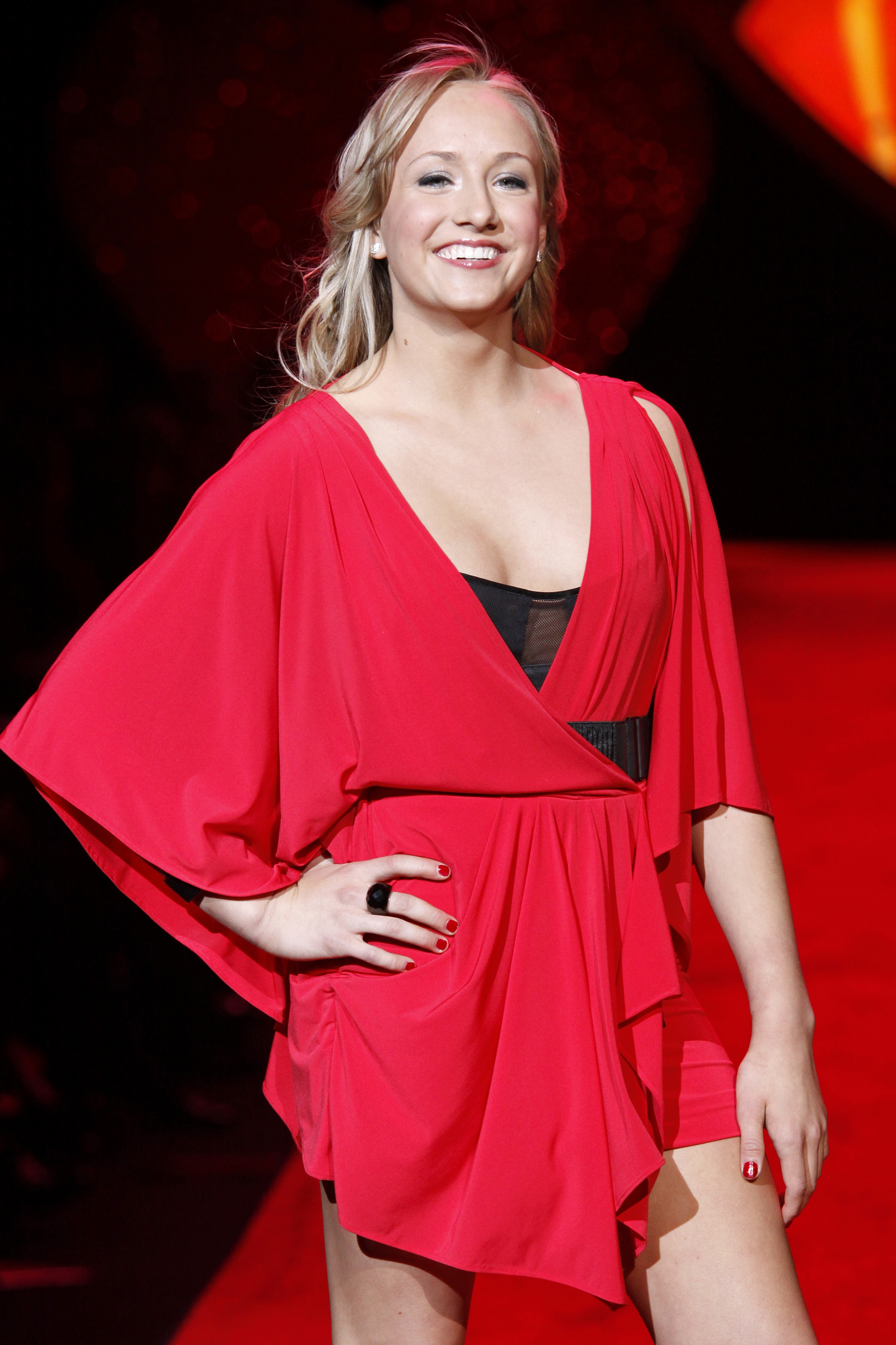 Backstage at The Heart Truth's Red Dress Collection Fashion Show during New York Fashion Week. February 13, 2009 at Bryant Park.